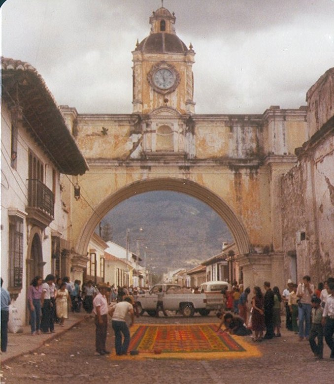 Antigua Guatemala Holy Week celebrations, 1980 Temporary ceremonial carpet under old convent arch. Photo by Infrogmation.